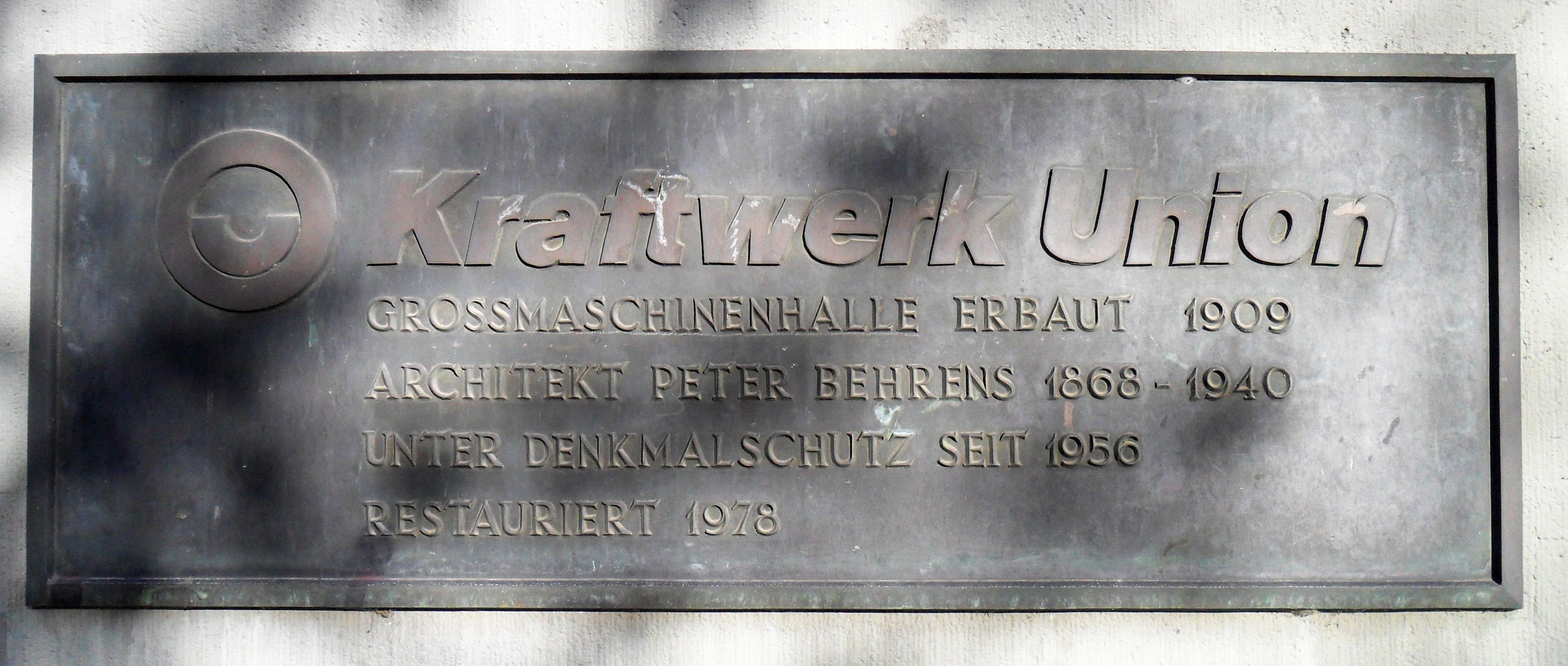 Plate at the AEG-Turbine-Factory in Berlin-Moabit